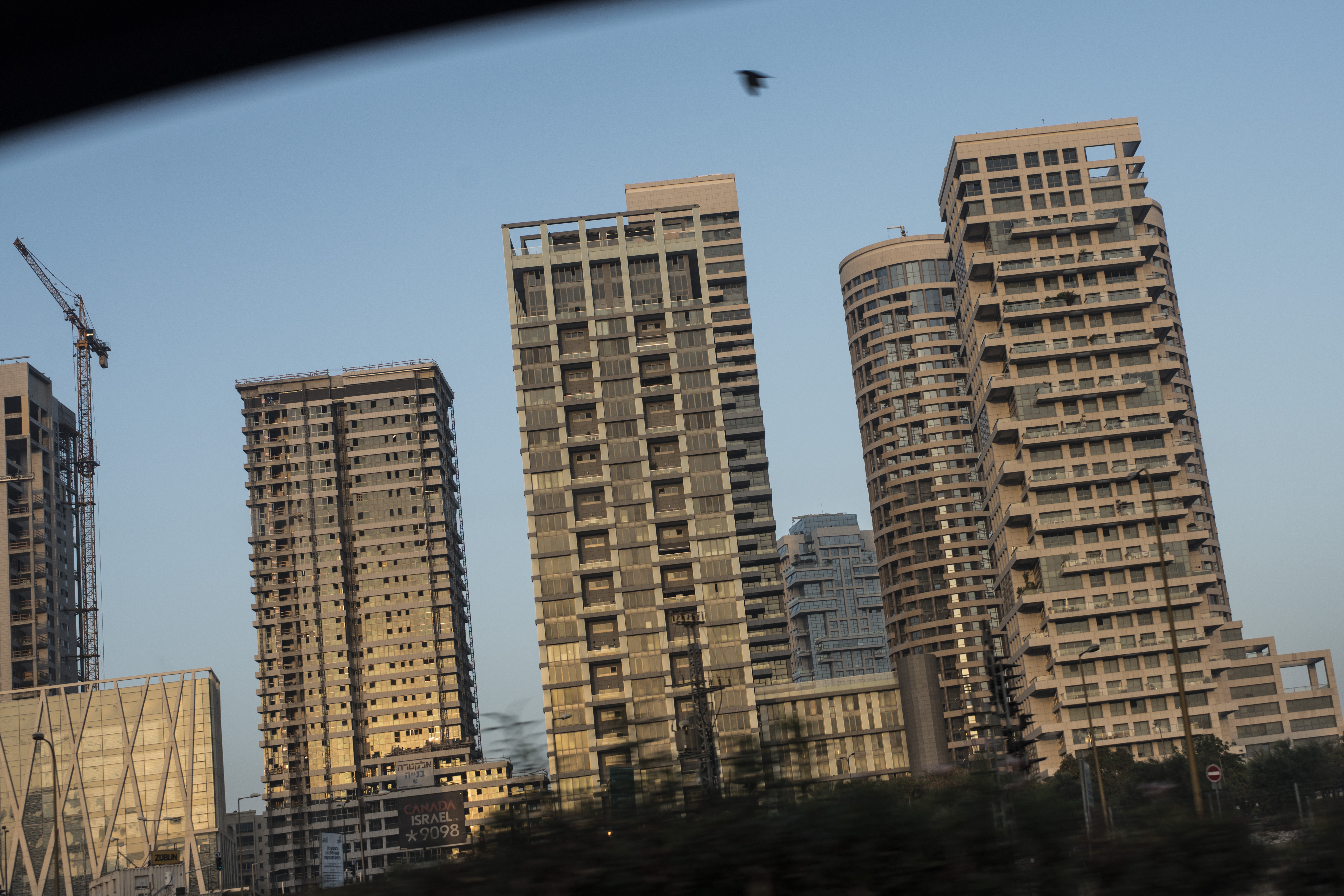 Construction of Park Tzameret district in Tel Aviv, Israel